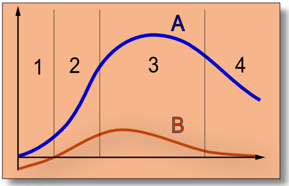 Product life cycle (Basic chart)